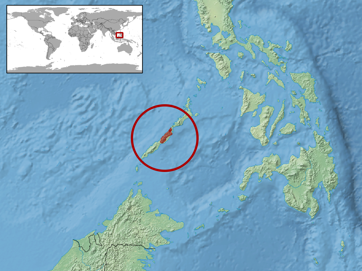 geographic distribution of Luperosaurus palawanensis (Native: Philippines)